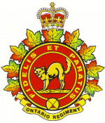 Modern crest (badge) of The Ontario Regiment RCAC